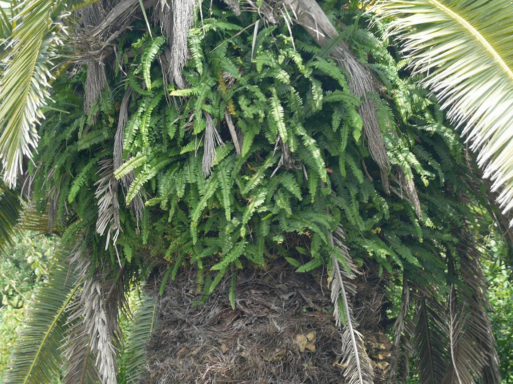 Nephrolepis cordifolia Japanese name:Tamasida：タマシダ Date;2009,08.22;Tanabe City, Wakayama prefecture, Japan Author;Keisotyo